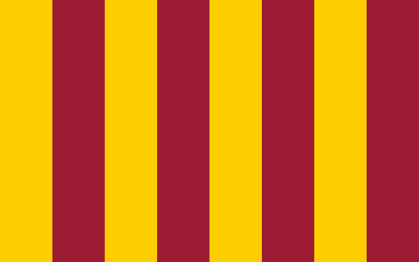 Flag of Nurthumbria.